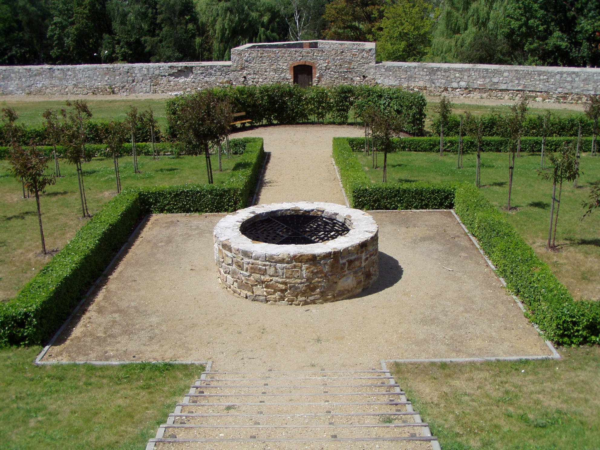 Well head of water well in the Gardens of the Palace of the Kraków Bishops in Kielce, Poland